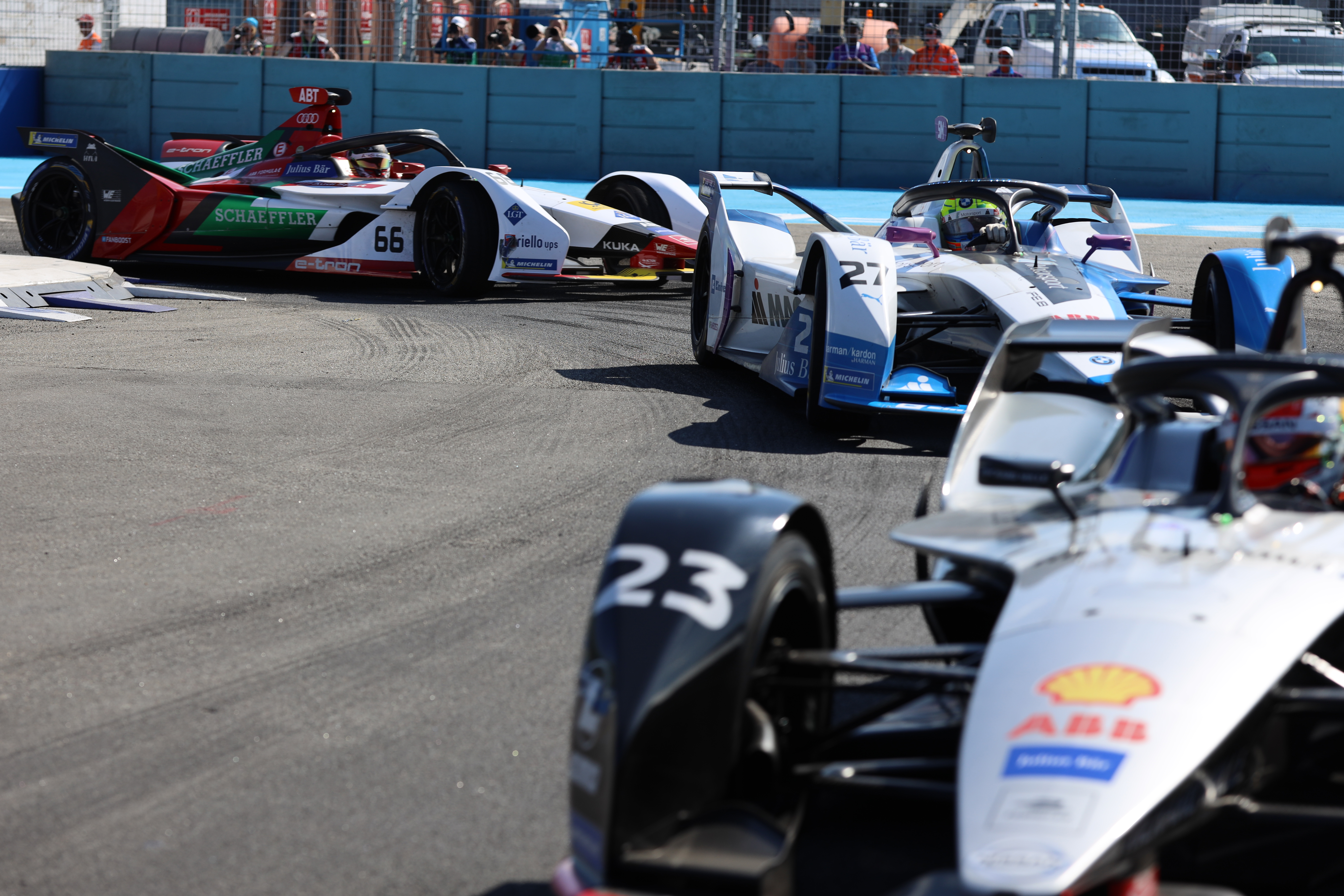 Sébastien Buemi (23), Alexander Sims (27) and Lucas Di Grassi (66, driving for Audi Sport ABT Schaeffler) during the 2019 ABB FIA Formula E Championship in NYC